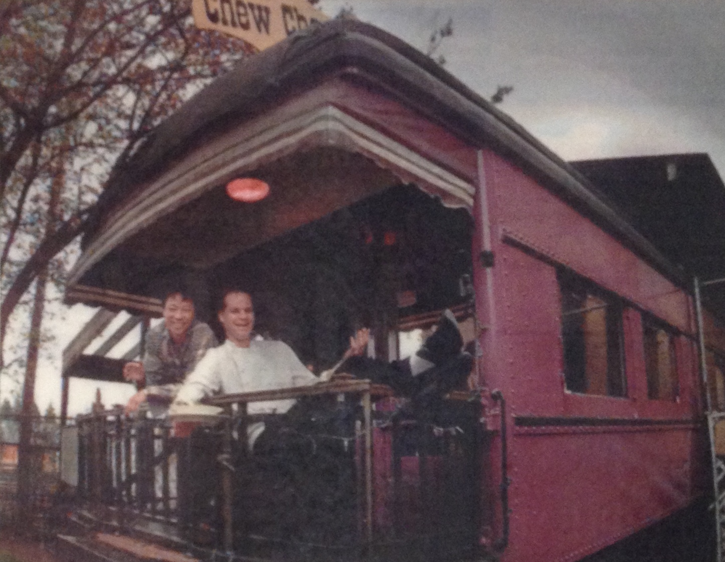 The Chew Chew Club launches in Gastown, Vancouver